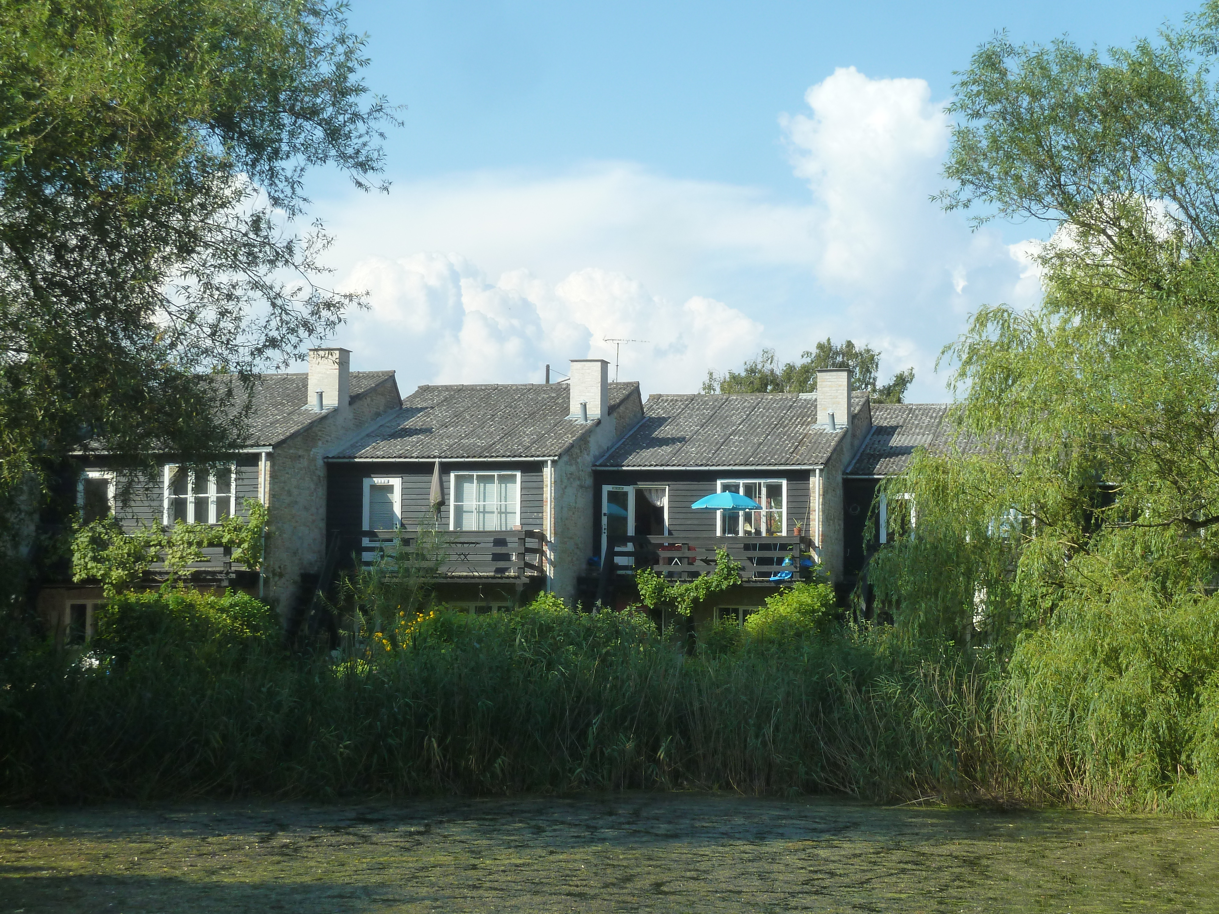 Artists' housing Atelierhusene in the Nordvest district of Copenhagen, Denmark